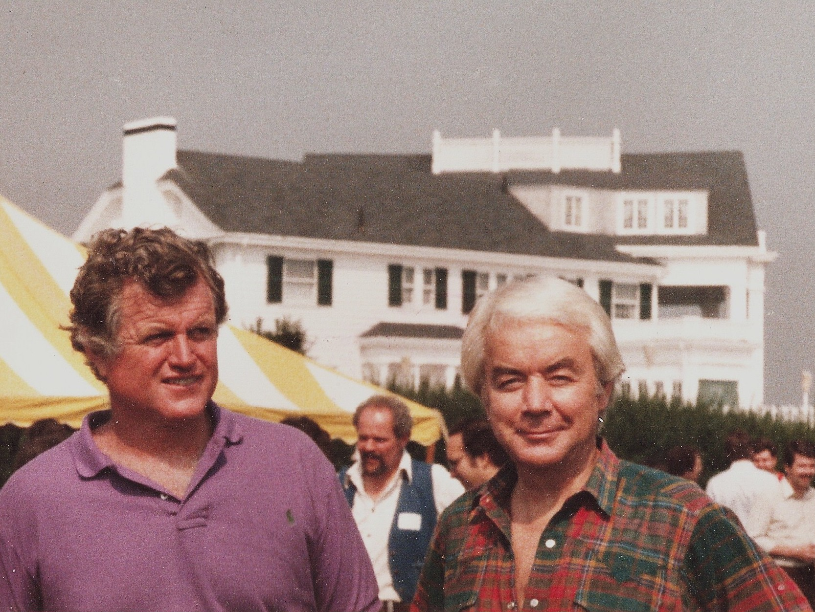 Newscaster Truman Taylor with Senator Ted Kennedy (D-Mass.) at the Kennedy compound in Hyannis Port, Massachusetts